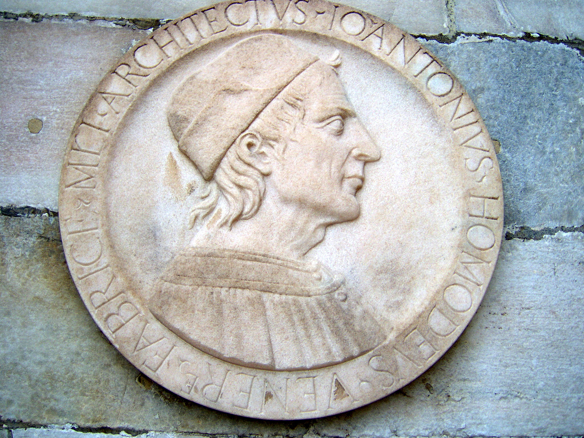 Giovanni Antonio Amadeo on the "Amadeo's Little Spire" - Milan Cathedral